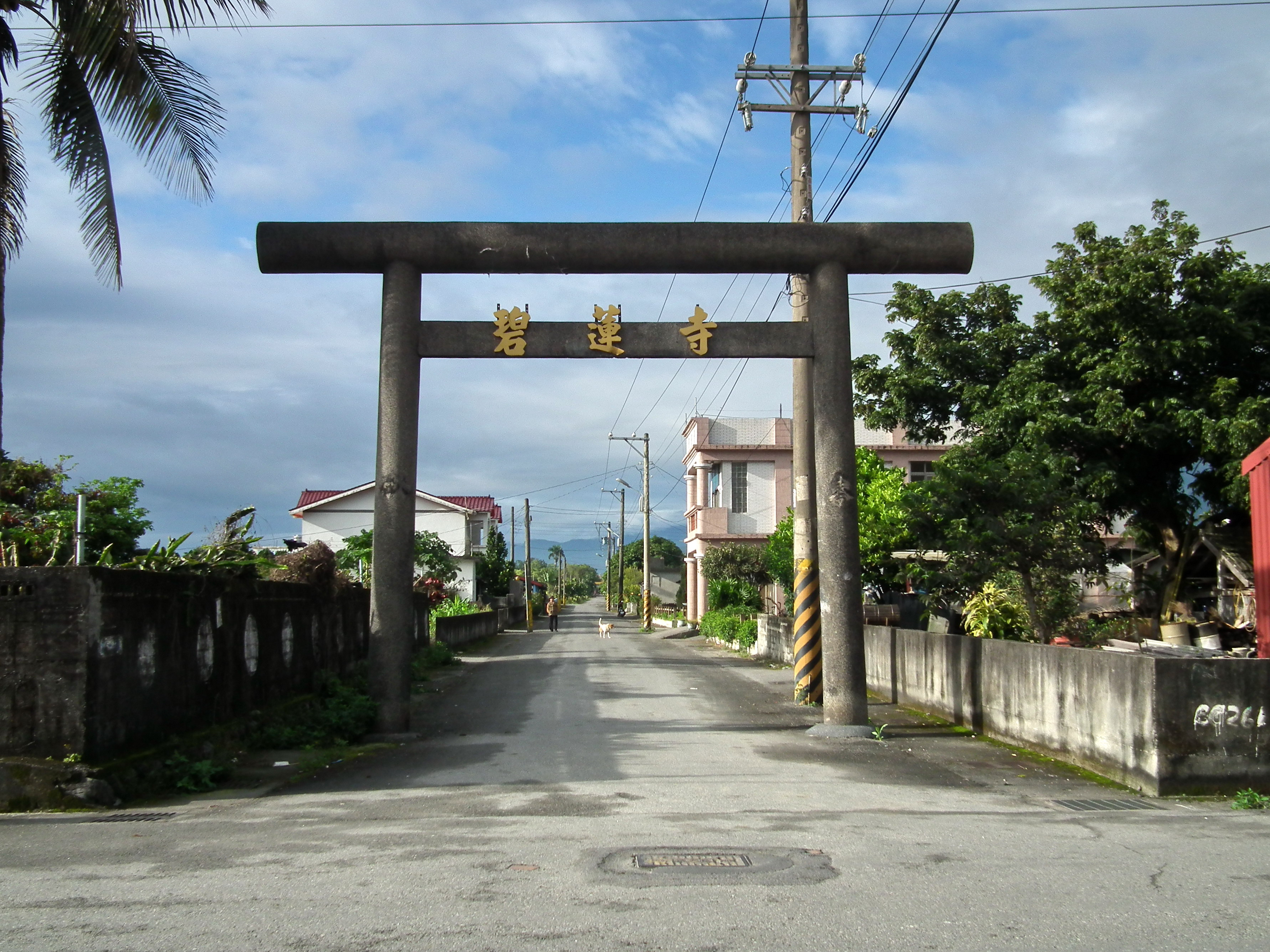 原豐田神社鳥居 Dorii of Former Toyota Shrine